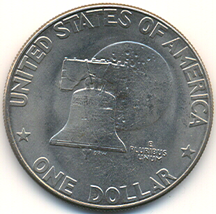 1975/1976 Bicentennial Commemorative coin (reverse). Reverse of the Bicentennial dollar, minted 1975-1976. Dollar bicentennial reverse (Type 1 shown). Bicentennial Eisenhower Dollar Reverse.